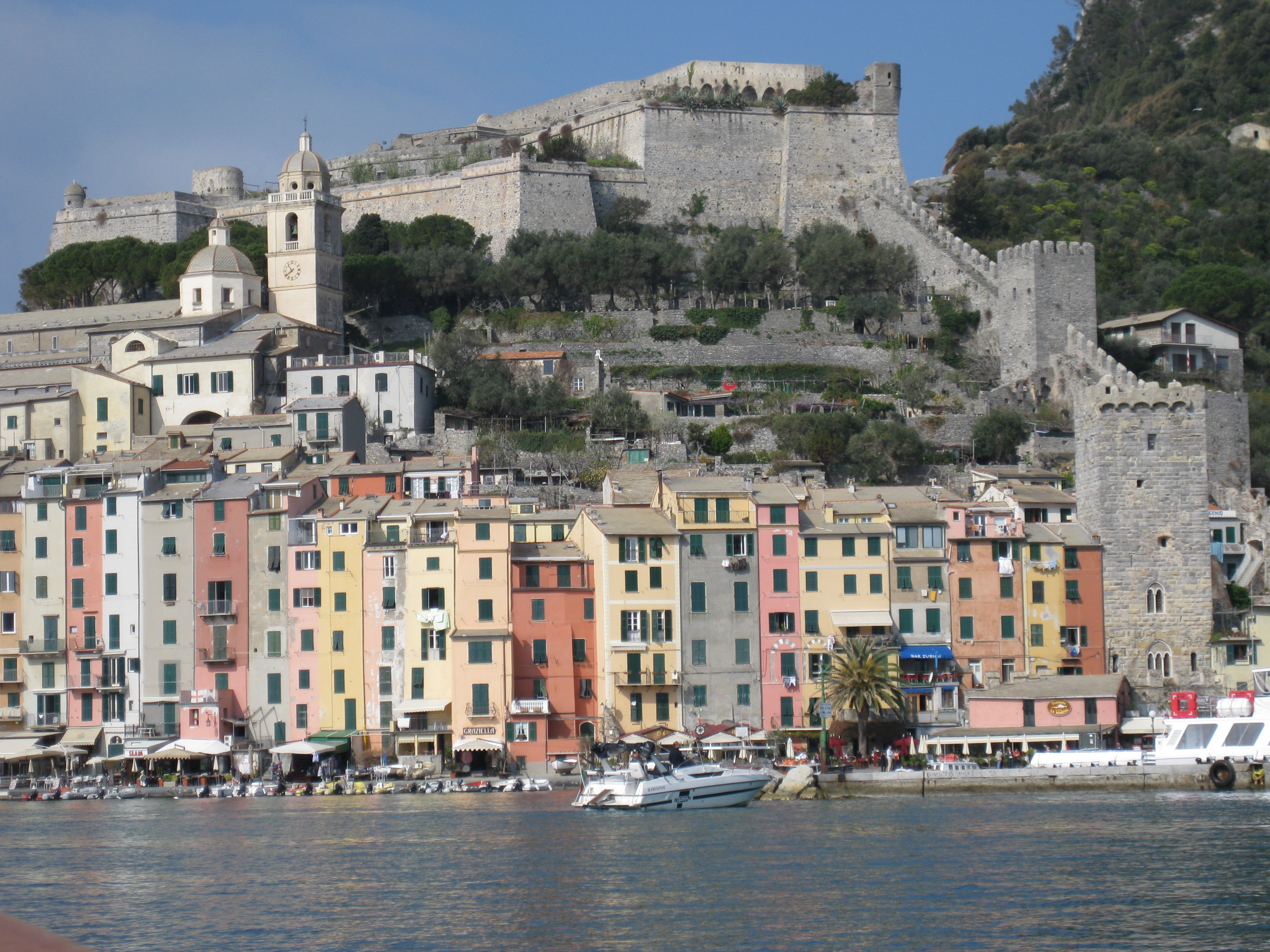 Portovenere View ITALY